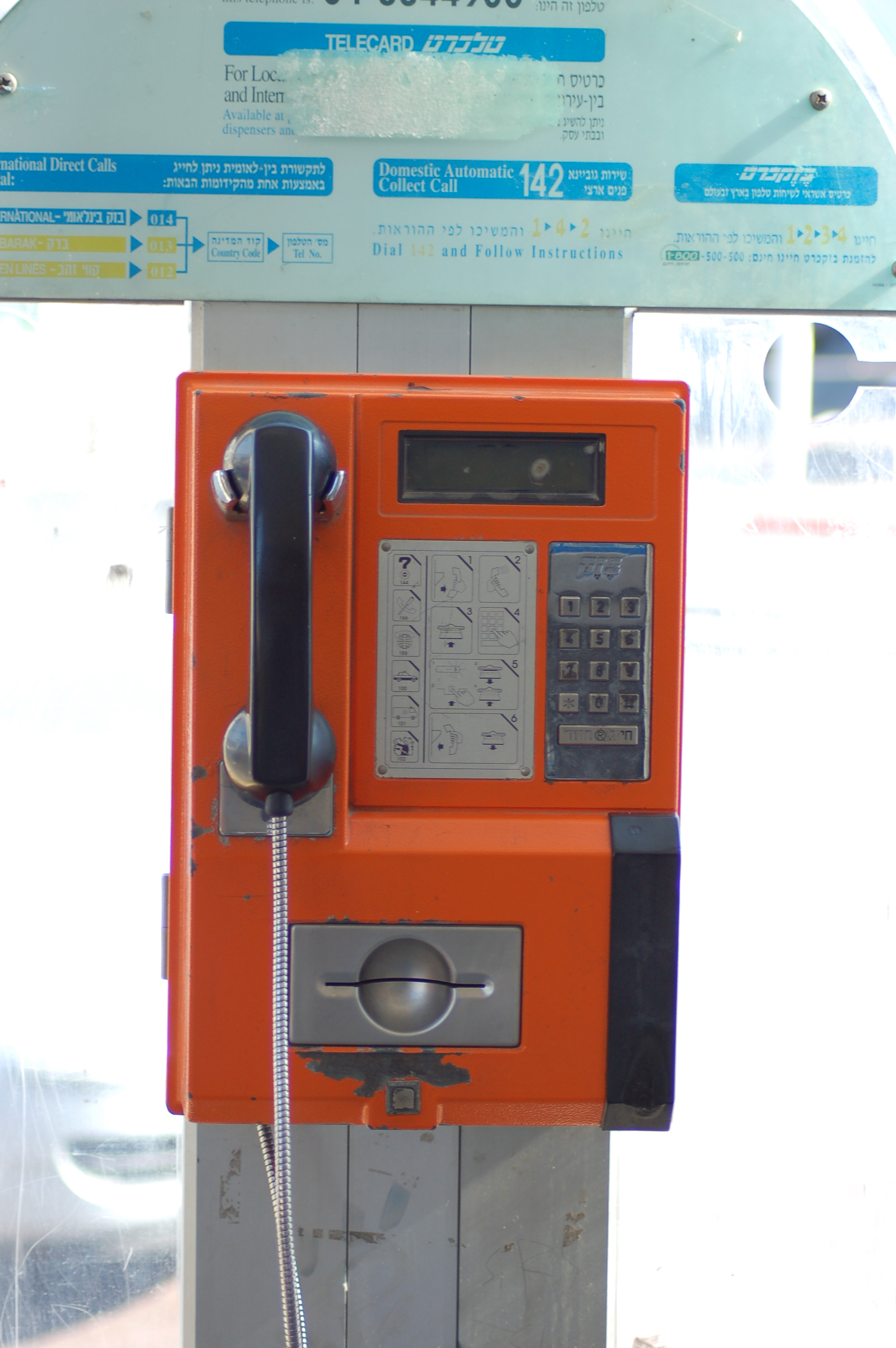 Pay phone in Haifa, Israel